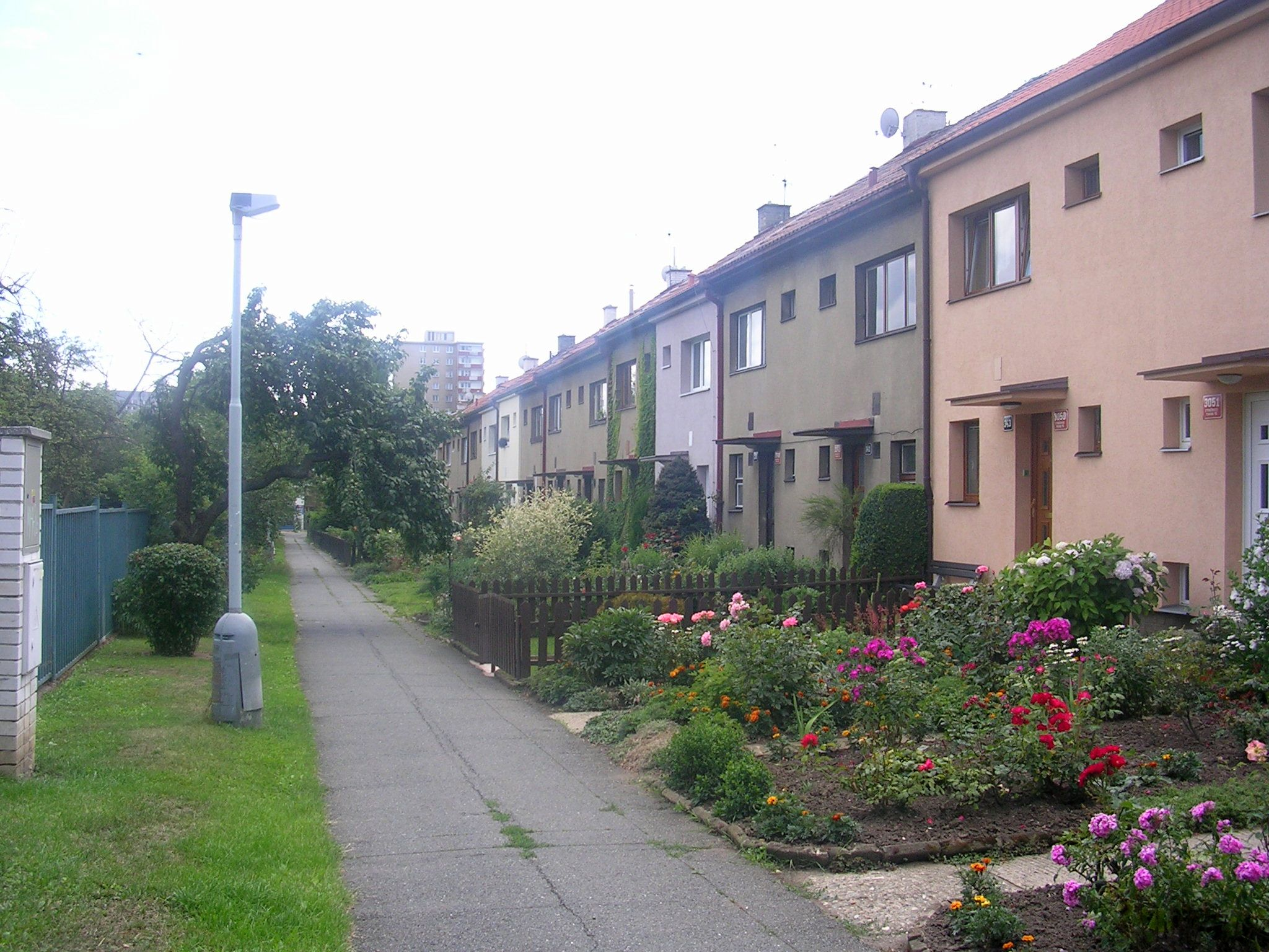 Strašnice, Prague, the Czech Republic. Solidarita Housing Estatement.